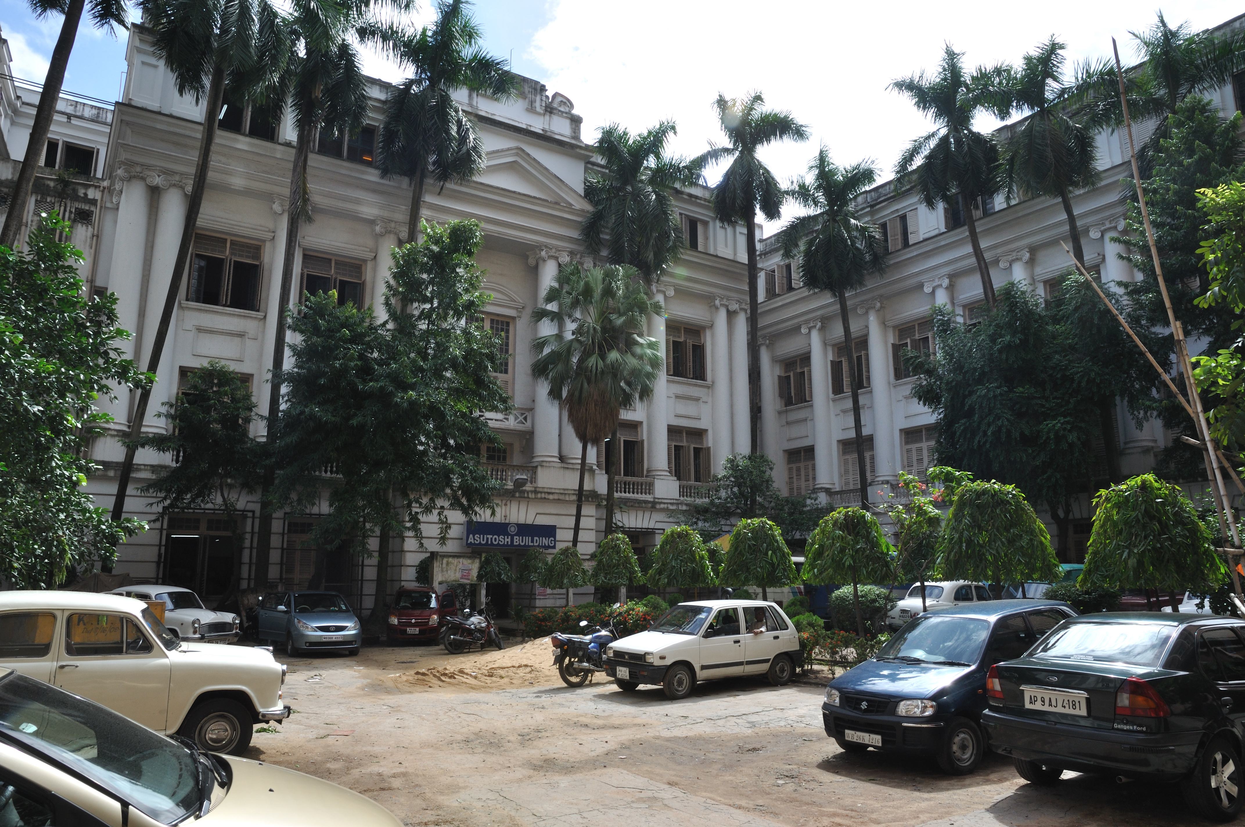 The University of Calcutta (also known as Calcutta University) is a public university located in the city of Kolkata (previously Calcutta), India.